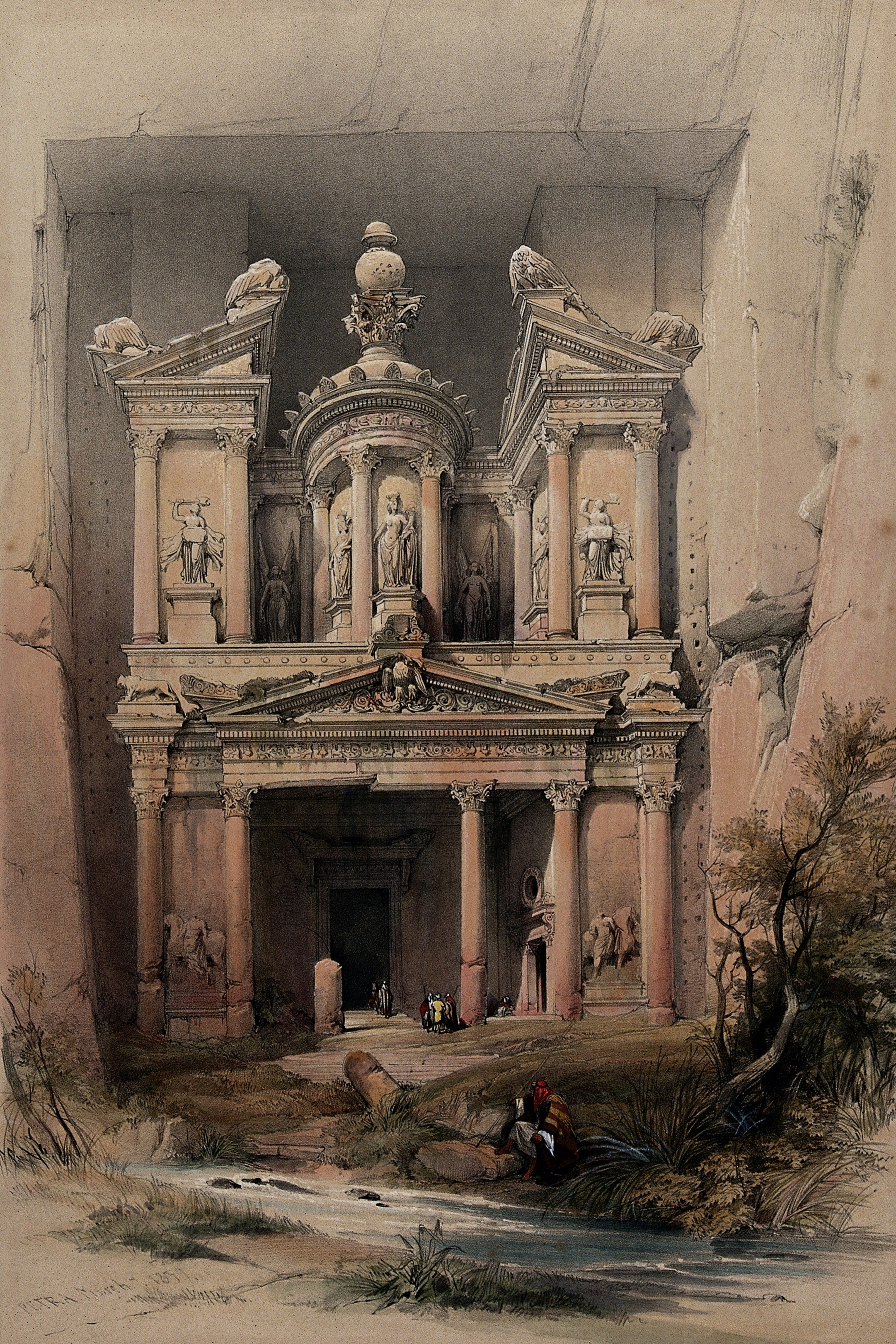 El Khasnè, Petra. Coloured lithograph by Louis Haghe after David Roberts, 1849. Iconographic Collections Keywords: David Roberts; Louis Haghe